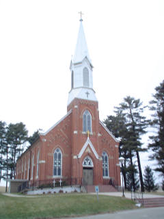 This is a photo of Holy Family Catholic Church, New Melleray, Iowa. For many years, the monks on the New Melleray Abbey provided support for this parish. This photo was taken by me in Jan of 2004.